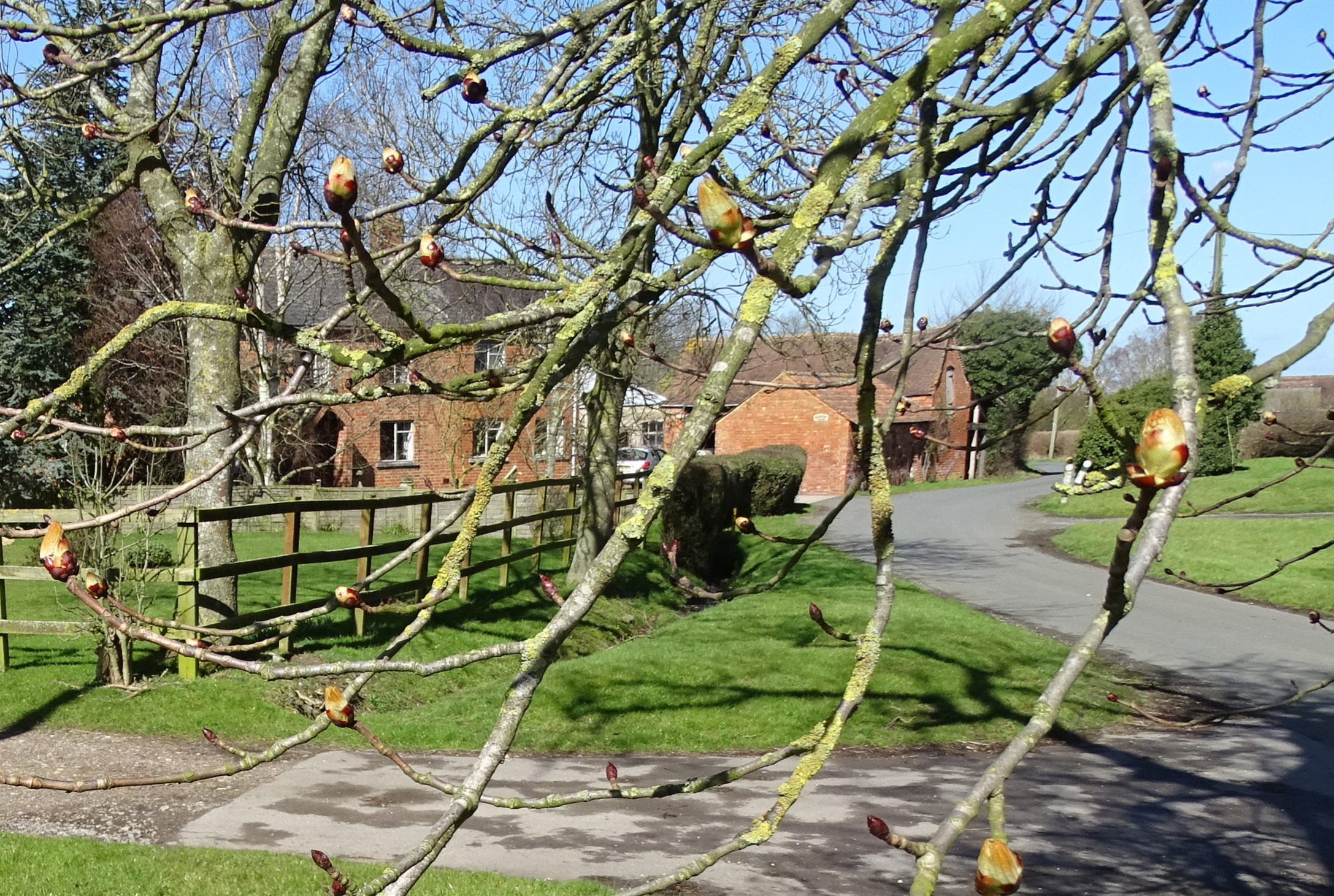 A scene in The Barrow